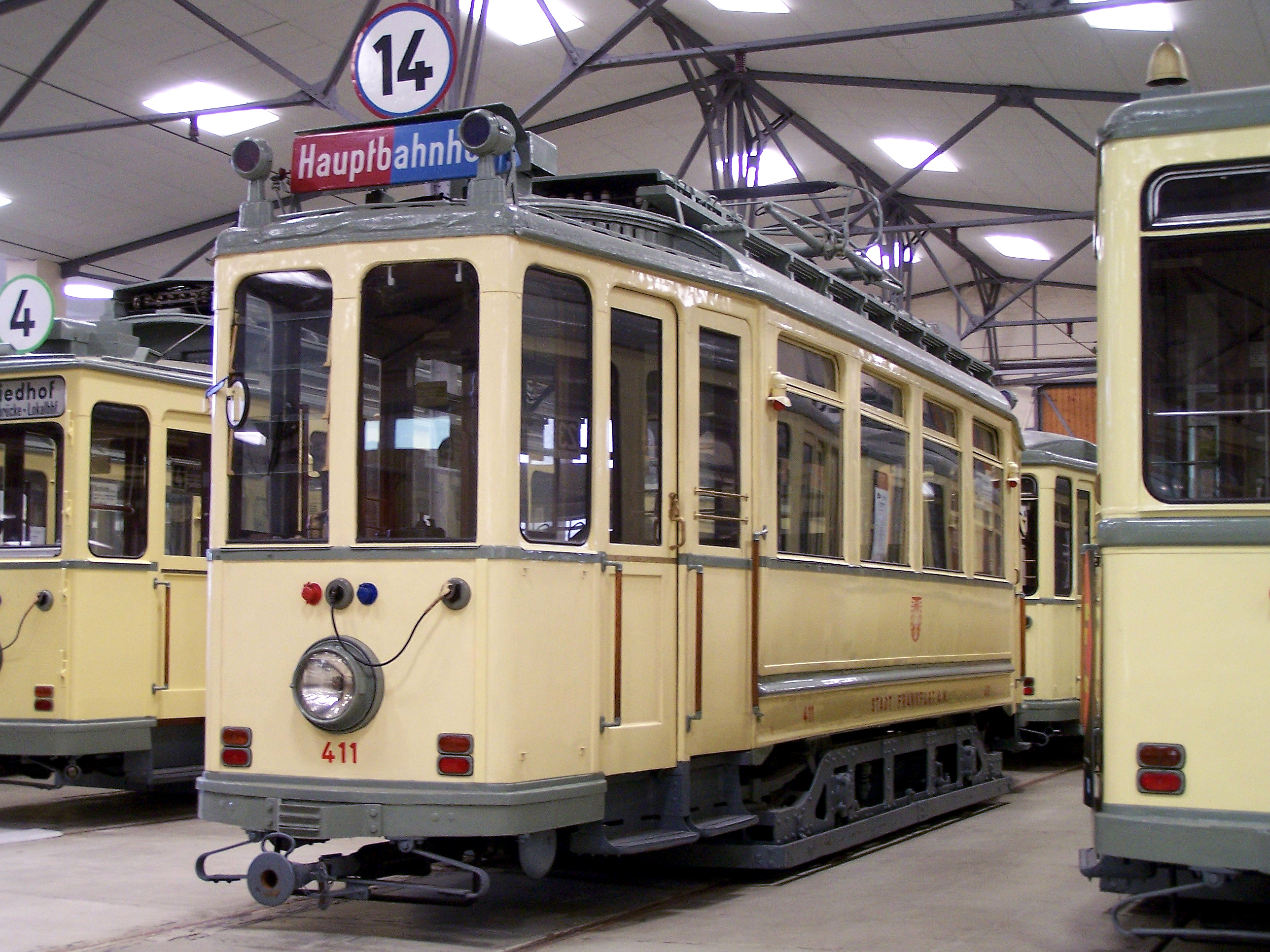 tram type F No 411 in the Frankfurt on Main Transport Museum in Frankfurt am Main--Schwanheim